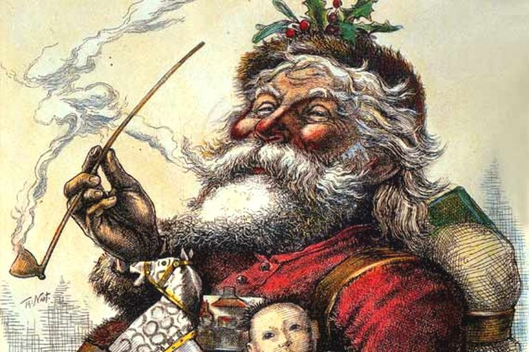 Portrait of Santa Claus, by Thomas Nast, Published in Harper's Weekly, 1881 Pages that link to this image